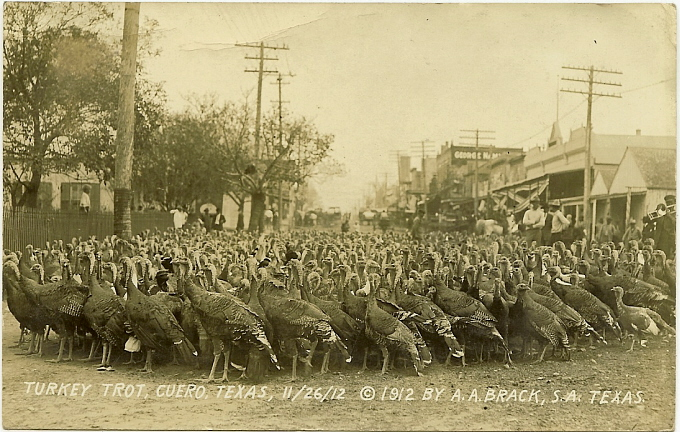 Postcard of a "Turkey Trot" in Cuero on November, 26, 1912 (about Thanksgiving Day in the United States)